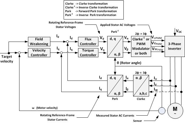 Vector block diagram